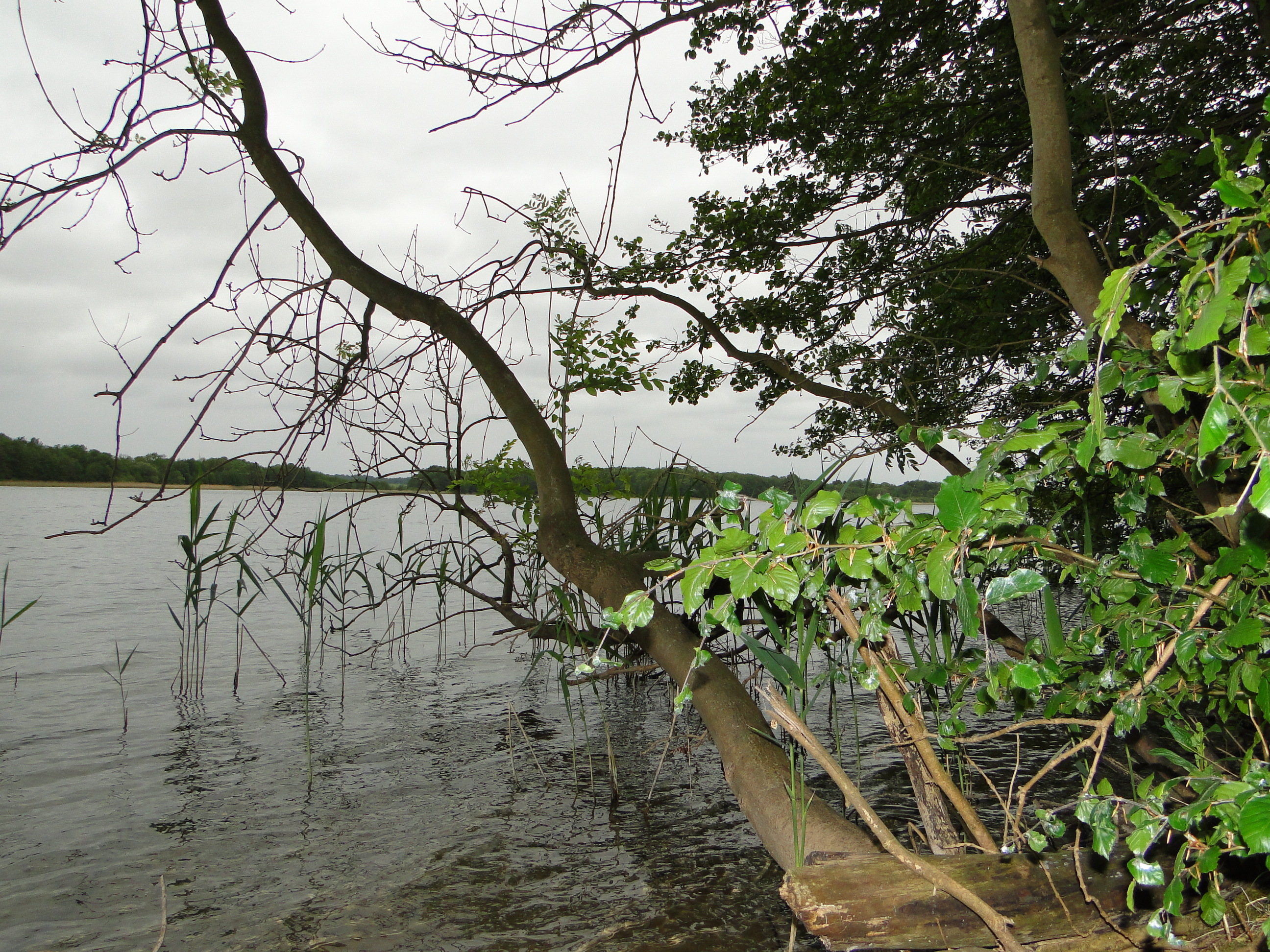 Lake Woseriner See next to the nature reserve Kläden near Kläden, district Parchim, Mecklenburg-Vorpommern, Germany